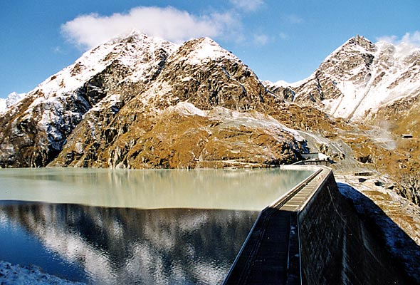 Grande Dixence and Lac des Dix, mountains: Mont Blava (2931m) (left) and Pointe d'Allevès ? (3046m) (right)